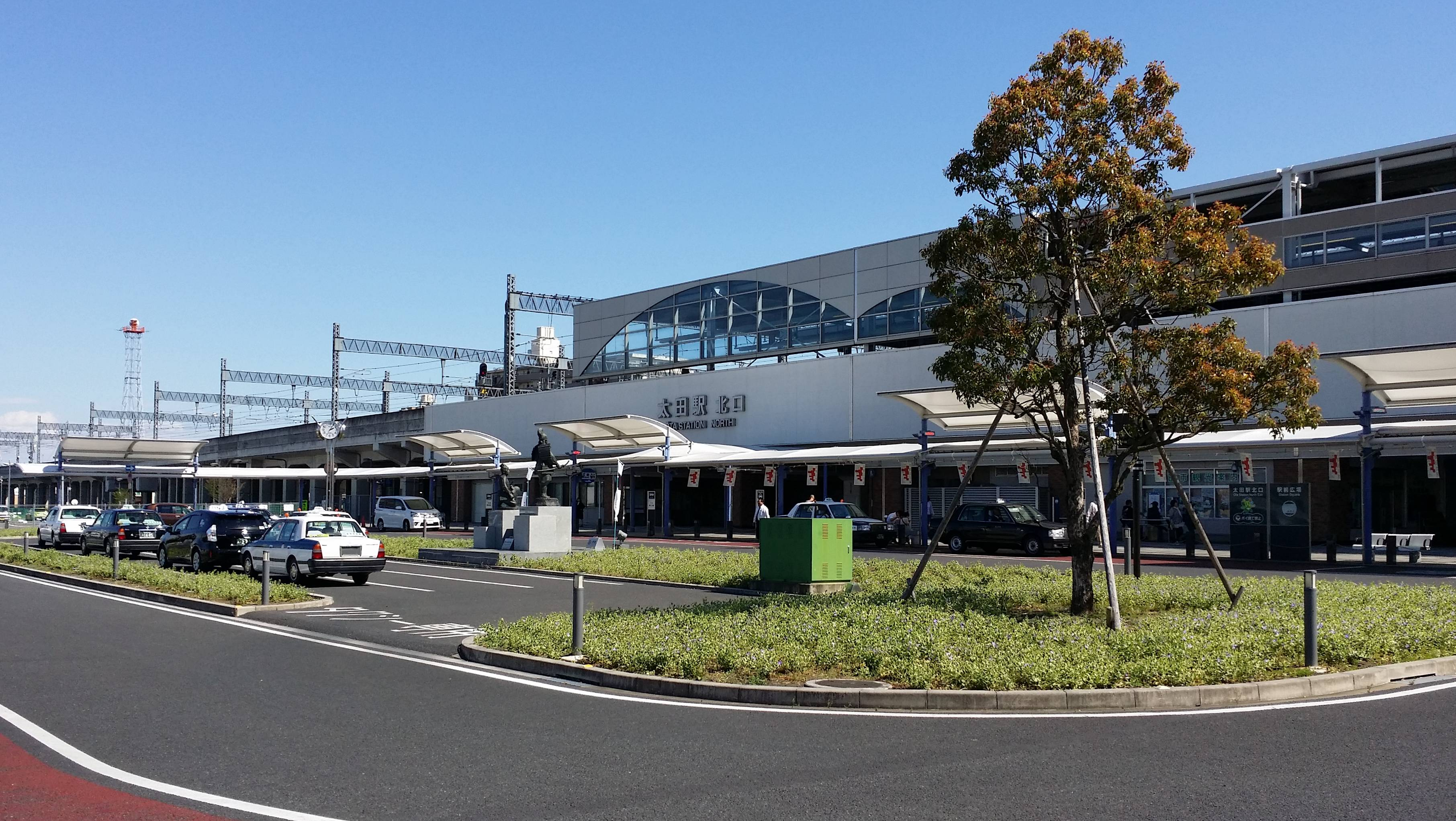 Ōta Station.